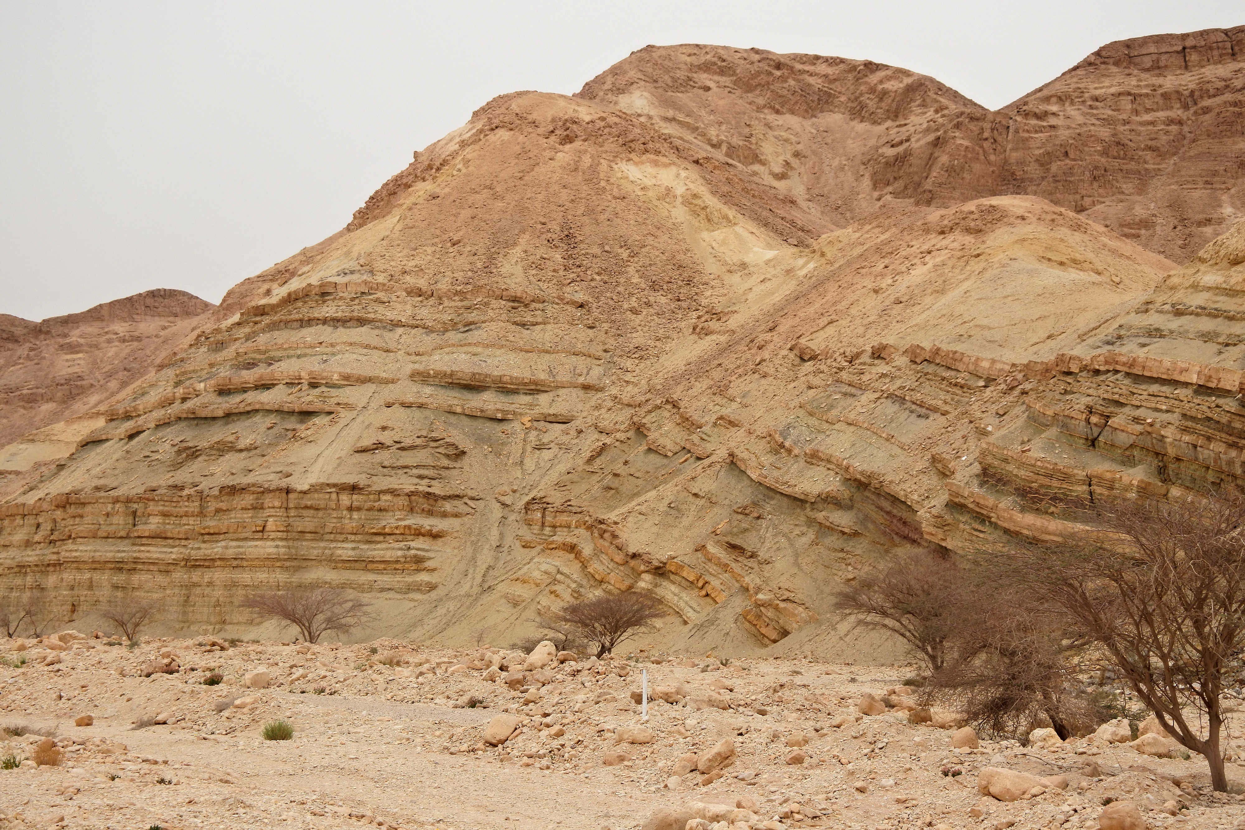 Ora Formation (Cretaceous) at Gerofit Junction, southern Israel.